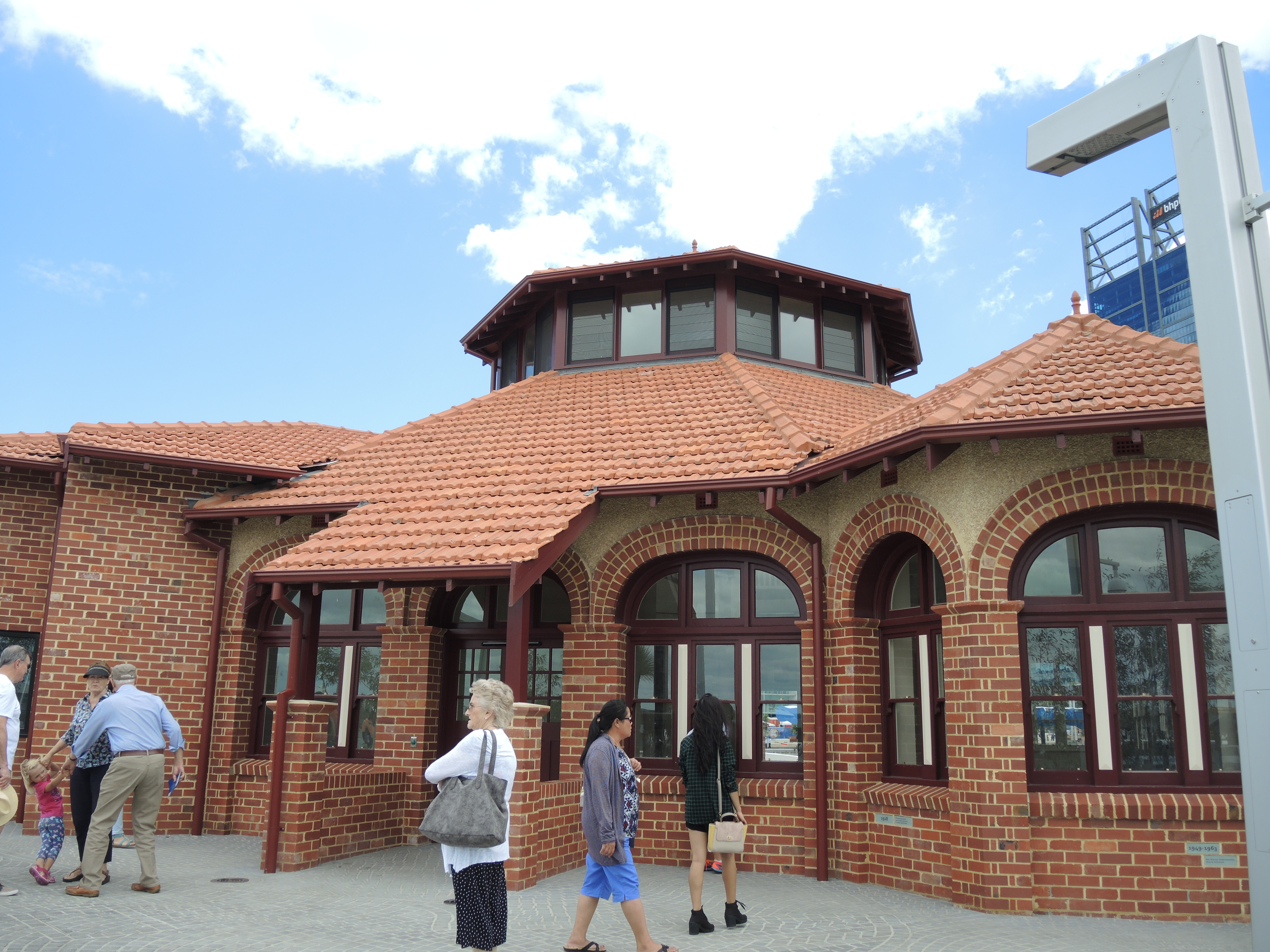 Elizabeth Quay in Perth, Western Australia, 1 February 2016. The Kiosk